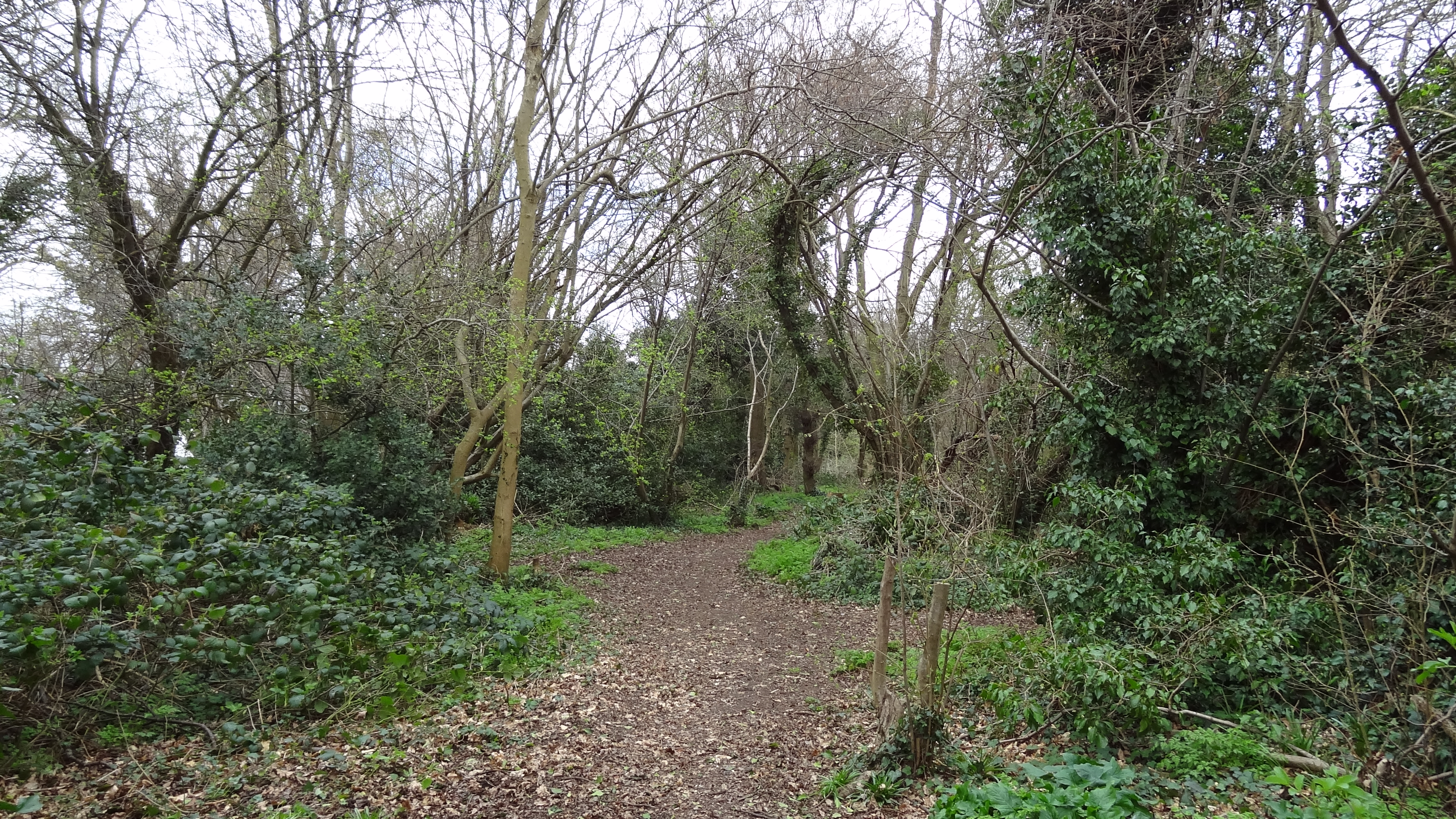 Roundshaw Downs nature reserve in Roundshaw in the London Borough of Sutton